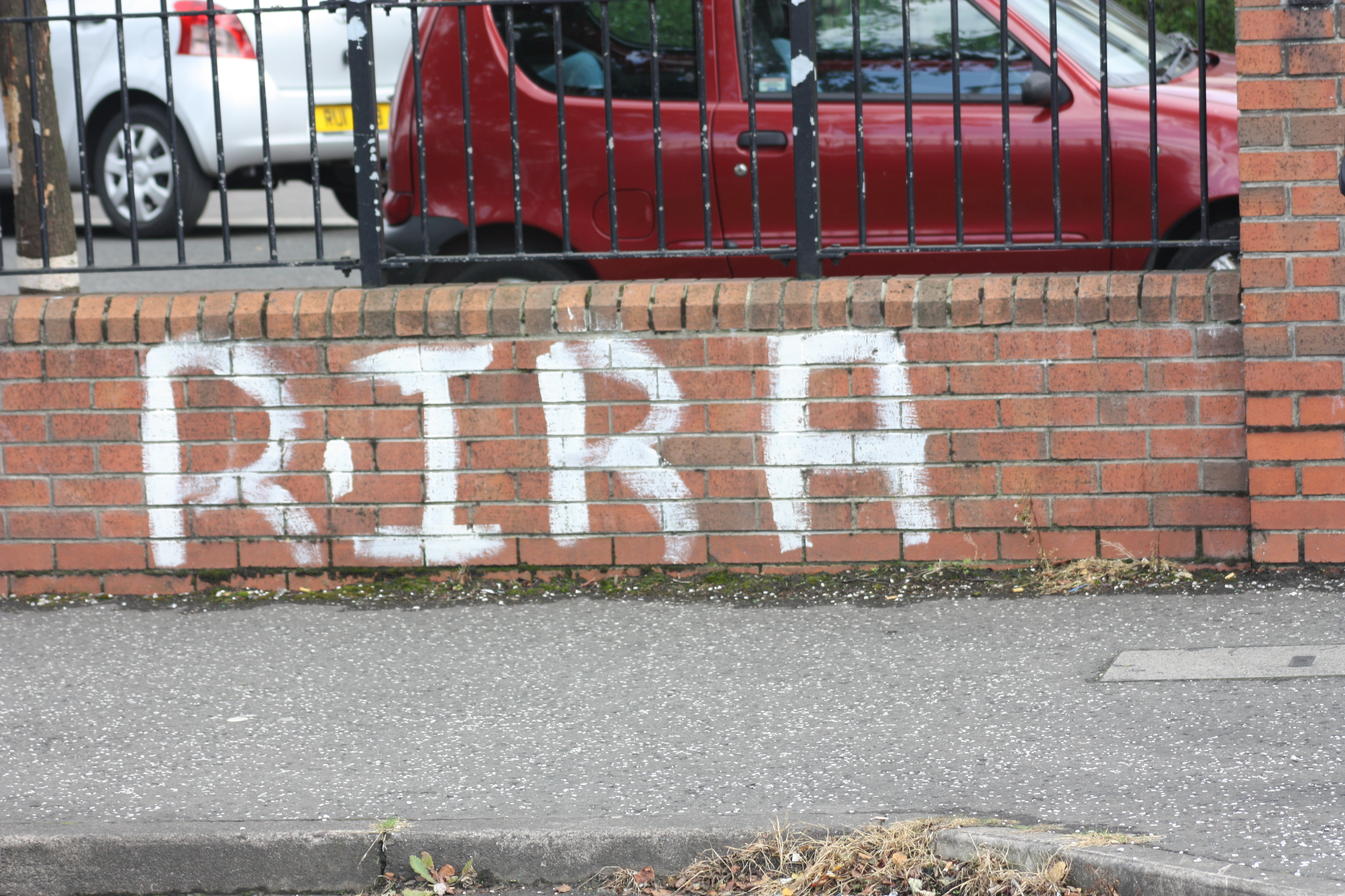 Bogside graffiti, Derry, County Londonderry, Northern Ireland, August 2009